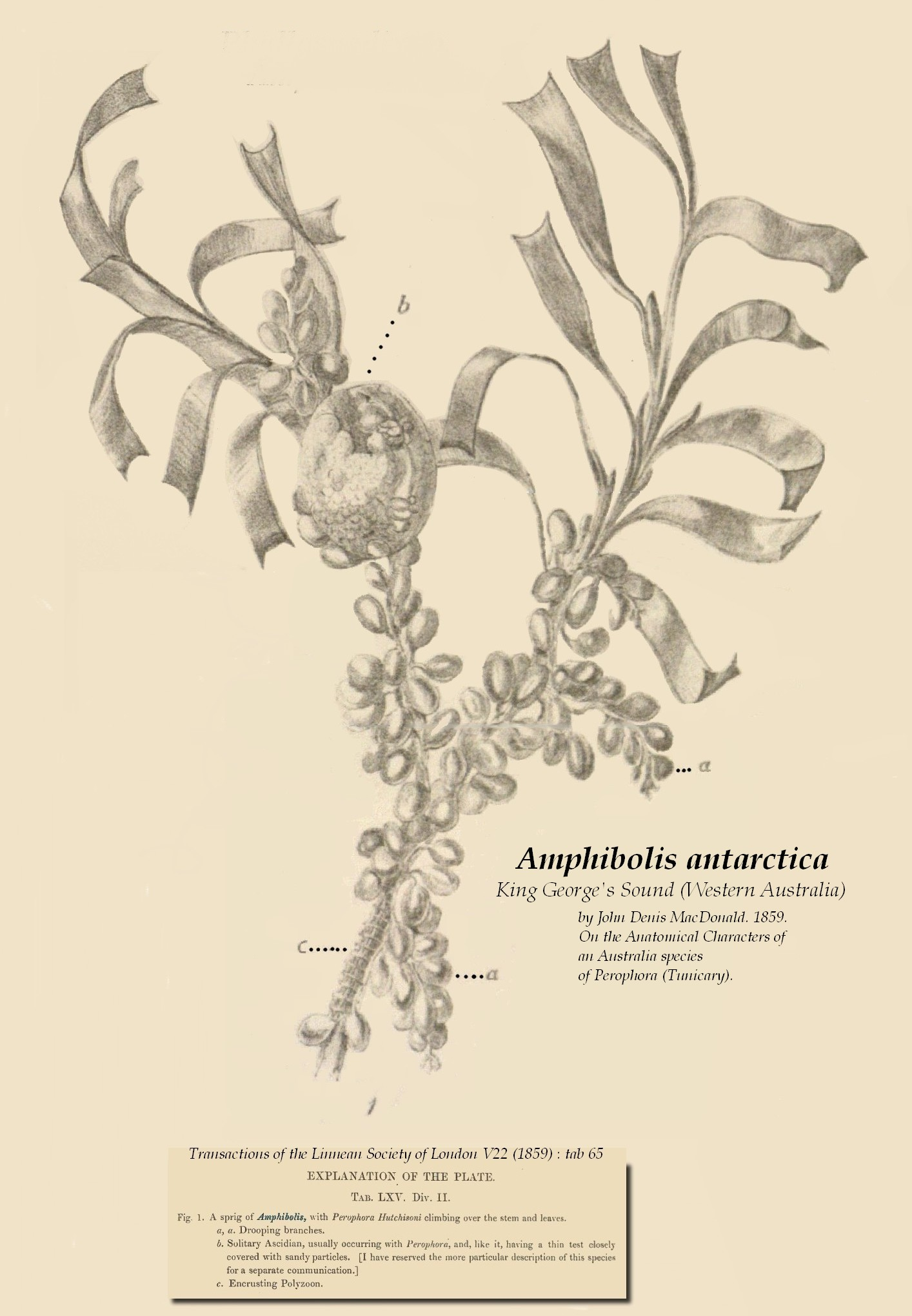 An australia species of Perophora (Tunicary) fixed on a sprig of an Amphibolis antarctica